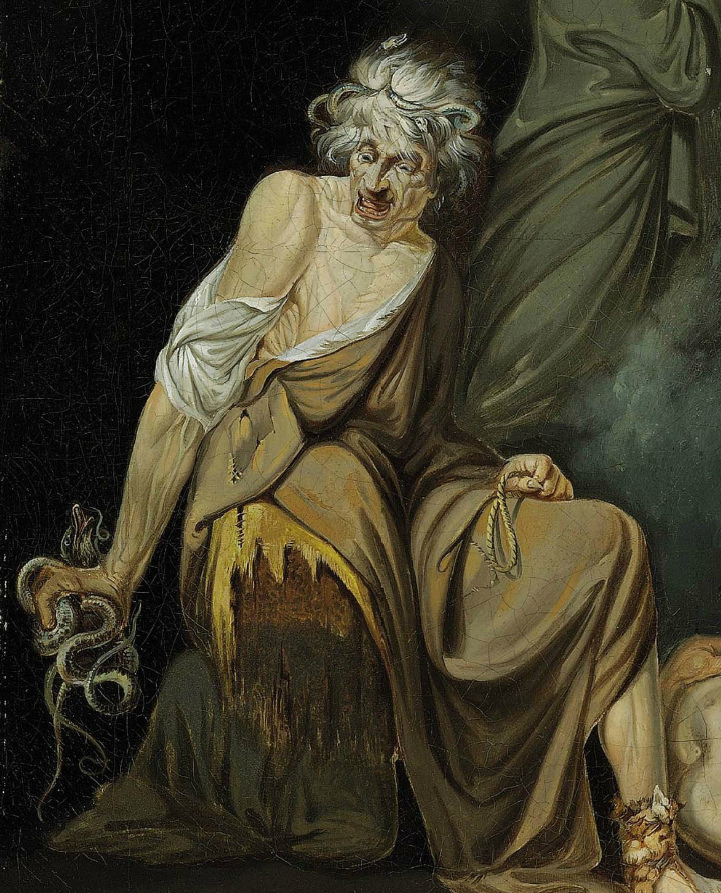 Detail from "Sextus Pompeius consulting Erichtho before the Battle of Pharsalia" by John Hamilton Mortimer